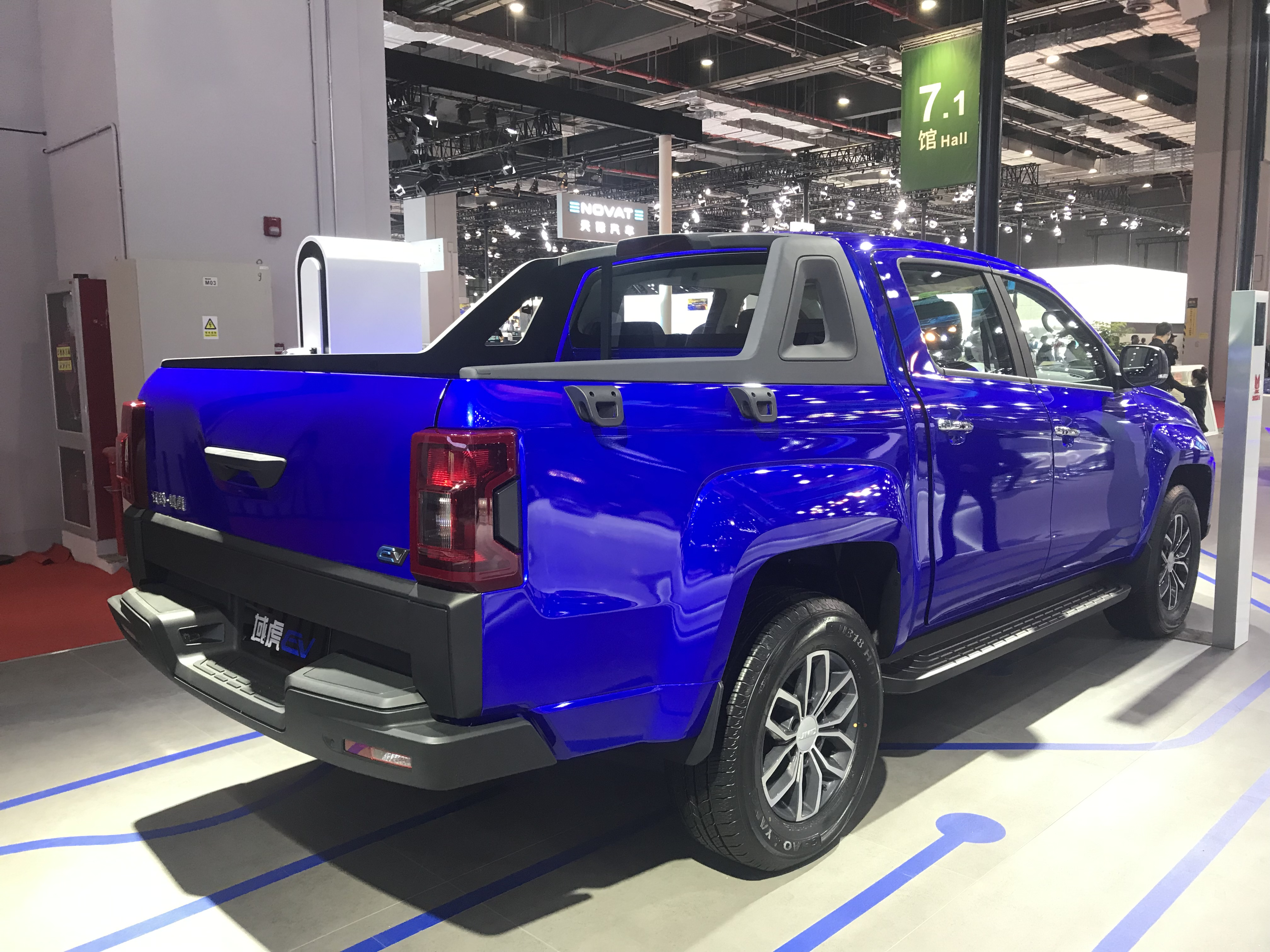 JMC Yuhu EV rear